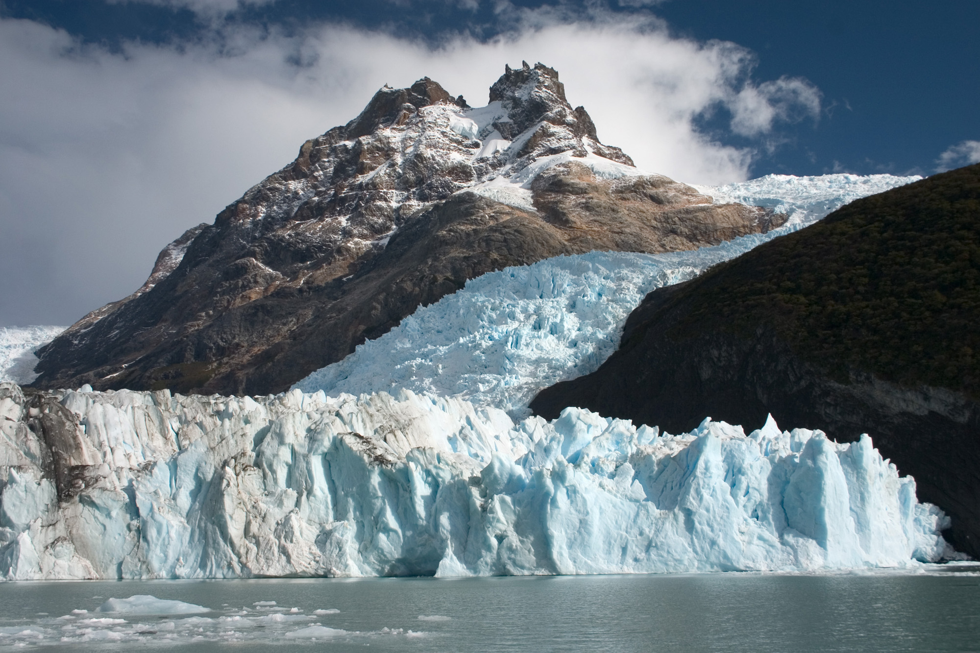 Spegazzini Glacier in Parque Nacional Los Glaciares, Patagonia, Argentina.